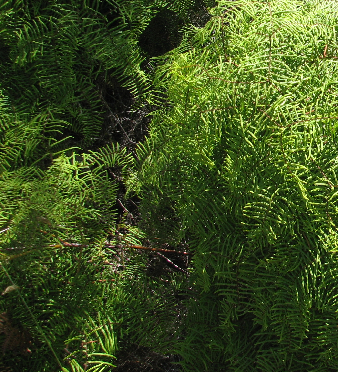 Gleichenia microphylla, Mornington Peninsula, Victoria, Australia